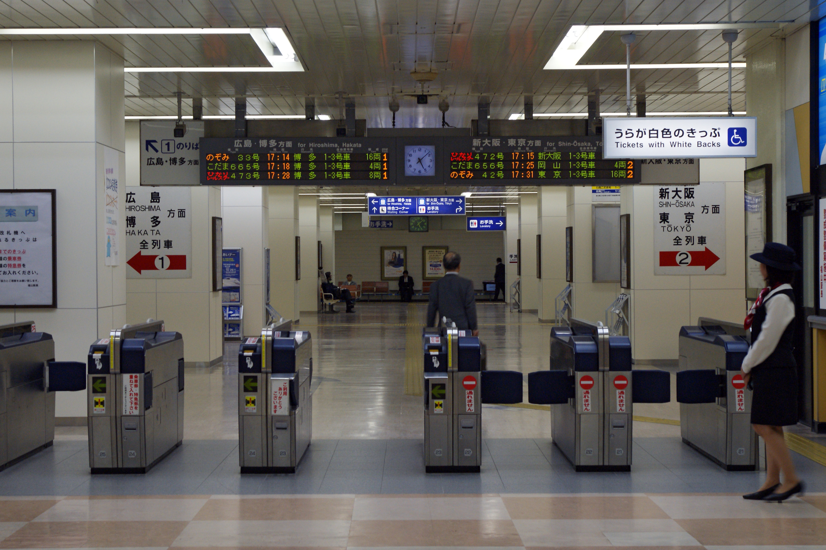 Fukuyama Station, Fukuyama, Hiroshima Prefecture, Japan